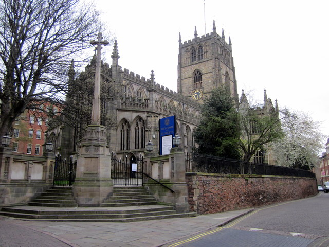 St Mary's Church Nottingham, Data from Geograph: Description: SK5739 :: St Mary's Church Nottingham, near to Nottingham, Great Britain ICBM: 52.951139400746, -1.1431016547392 Location: (about 1 km from) near to Nottingham, Great Britain.